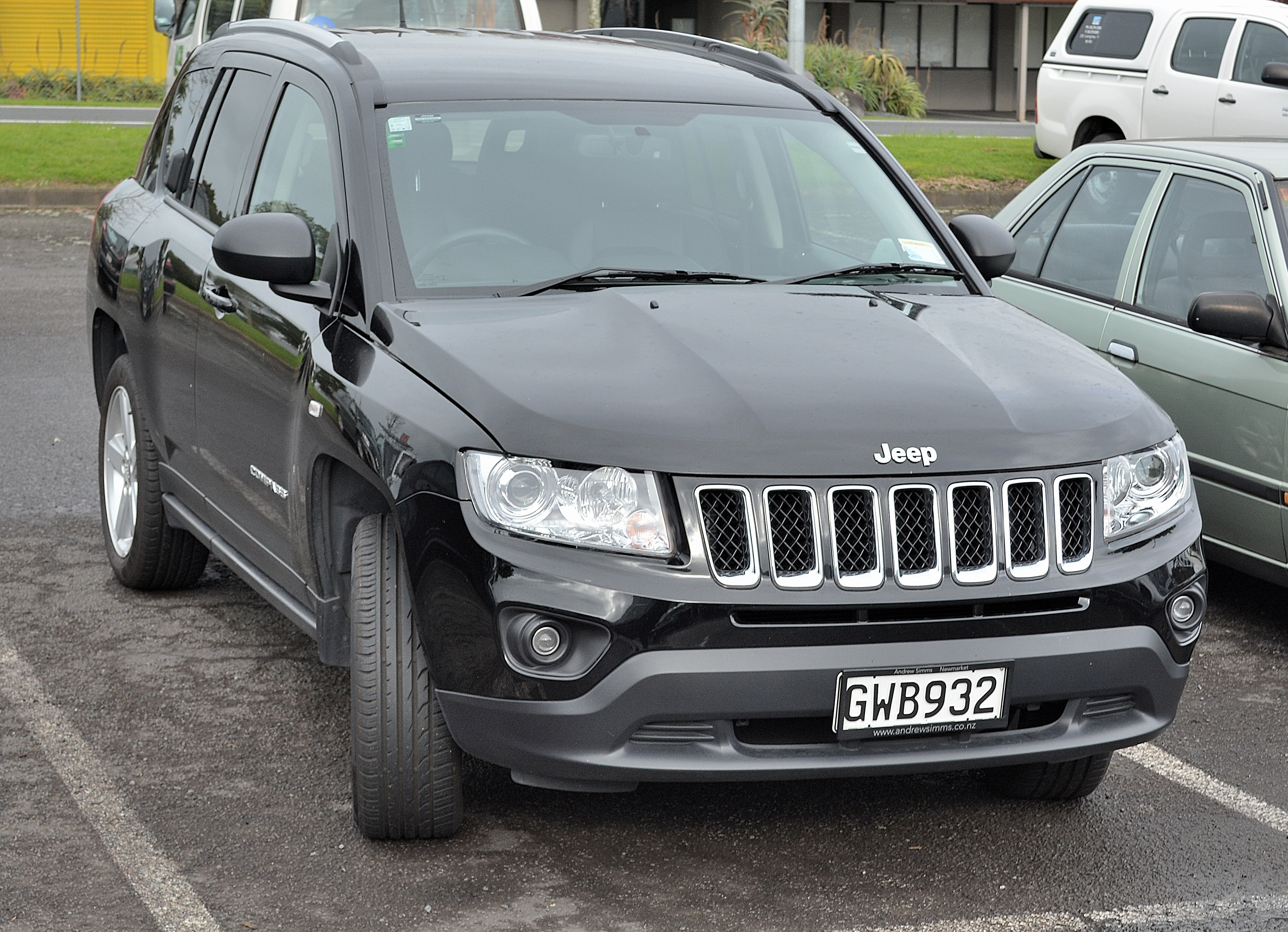 Manakua,South Auckland 2014.New Zealand